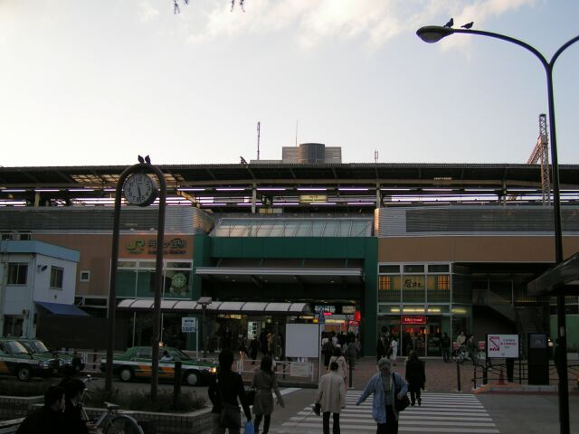 South Exit of Asagaya Station